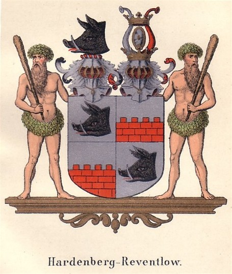 Coat of arms of the comital Hardenberg-Reventlow family